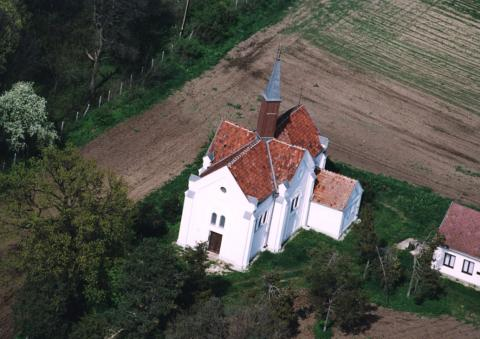 Tiszabura, Hungary, aerialphotography This is a photo of a monument in Hungary, Identifier: 6063